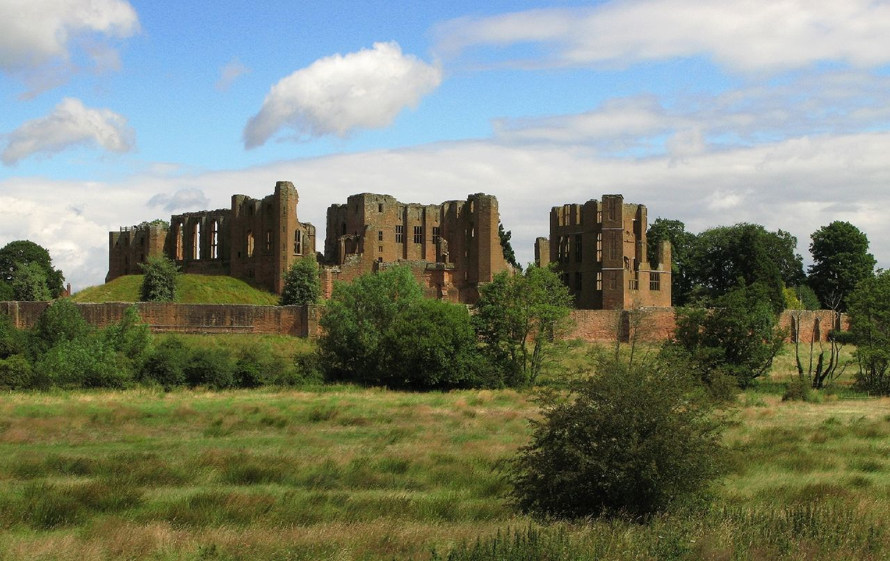 Kenilworth Castle in Warwickshire is a very imposing ruin with a very colourful history,in which Simon de Montfort,Henry III,John of Gaunt and Robert Dudley,Earl of Leicester,had parts.The castle ,seen across the site of the mere,part of the once-massive water defences which surrounded it.The Castle held out for months against a siege by Henry III in 1266.Queen Elizabeth I made three visits during the Earl Of Leicester's (Dudley) ownership.I'd love to see the mere re-flooded...